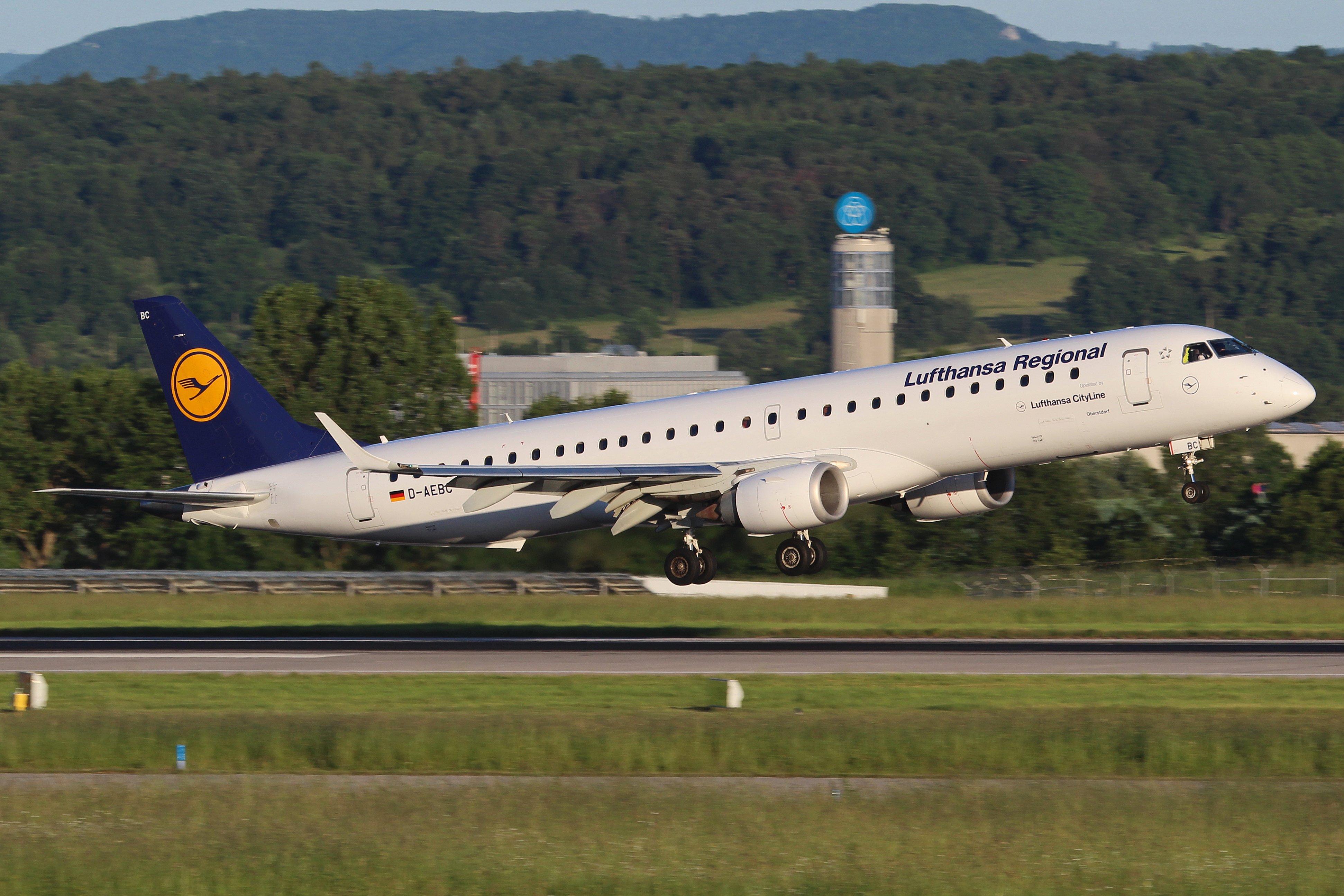 Lufthansa Regional Embraer 195 at Stuttgart Airport.